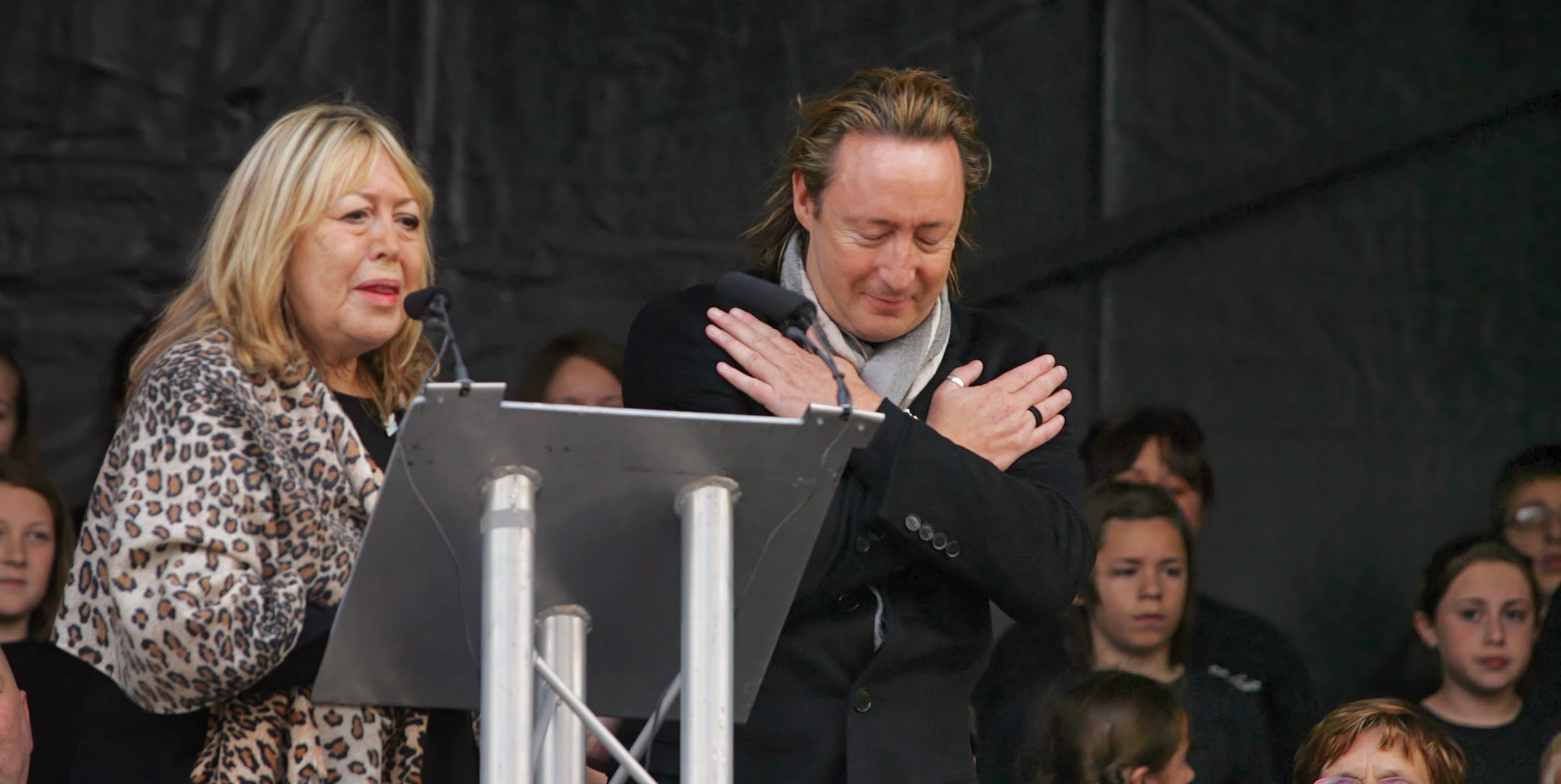 Cynthia and Julian Lennon at the unveiling of the John Lennon Peace Monument at the Chavasse Park in Liverpool on October 9, 2010 with the Liverpool Signing Choir in the background. They celebrated peace and the loving memory of John Lennon on the occasion of his 70th birthday.